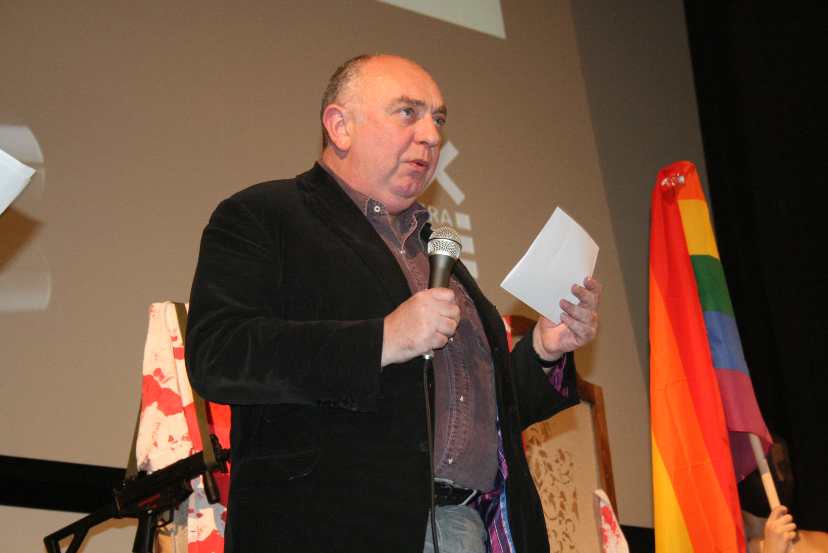 James Mackay, famous producer of some of Derek Jarman’s most important movies e.g. Angelic conversation (1985), The Garden (1990) or Blue (1990). Also member of the main jury of the 10th Queer Film Festival Mezipatra 2009. Photographed in Lucerna cinema, Prague. Česky: James Mackay, producent některých nejdůležitějších filmů Dereka Jarmana, například Andělské konverzace (1985), Zahrada (1990) nebo Blue (1990). Člen hlavní poroty 10. queer filmového festivalu Mezipatra 2009. Fotografováno při závěrečném ceremoniálu s vyhlášením vítězů v pražském kině Lucerna.